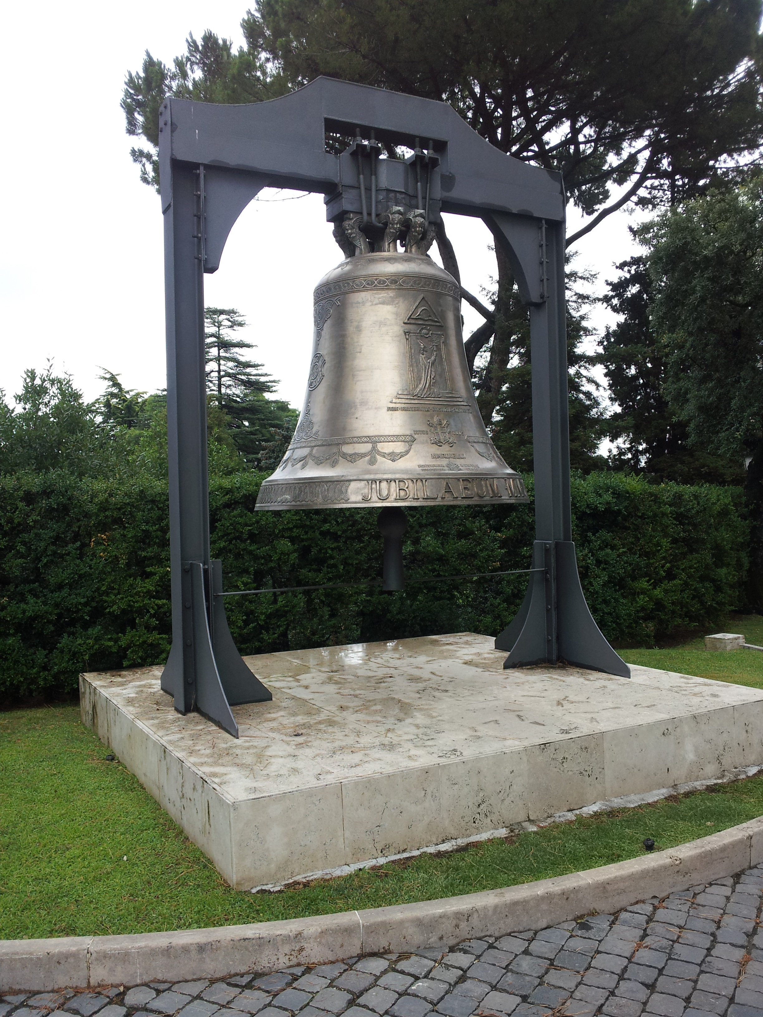 Jubilee bell of the year 2000. Inside the Vatican Gardens.